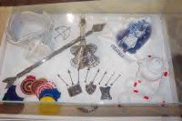 Santeria Artifacts used by those who practice the religion of Santeria